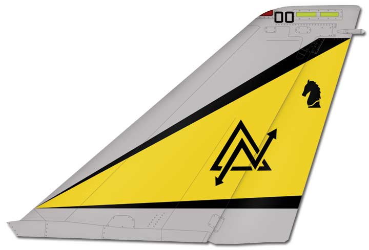 The tail of a US Navy F-14A Tomcat, belonging to VF-302, the "Stallions". Original created in Adobe Photoshop by Erik Hess in 2004.